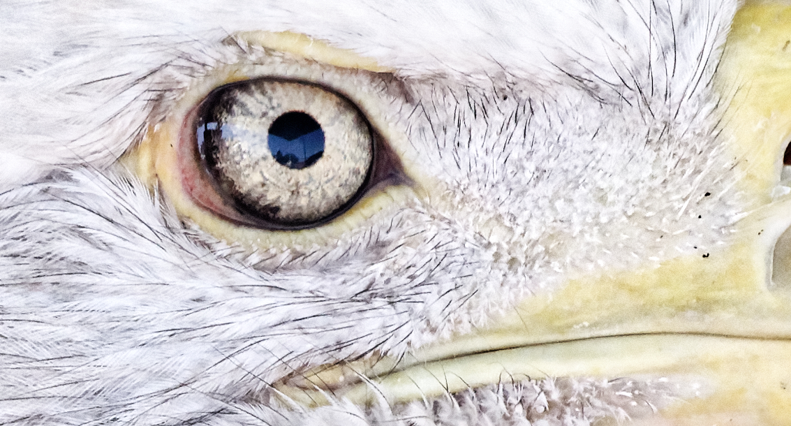 The eye of a Bald Eagle, taken from about 20 feet away and enlarged. From CoastFest in Brunswick, Georgia, US, October 5, 2019.